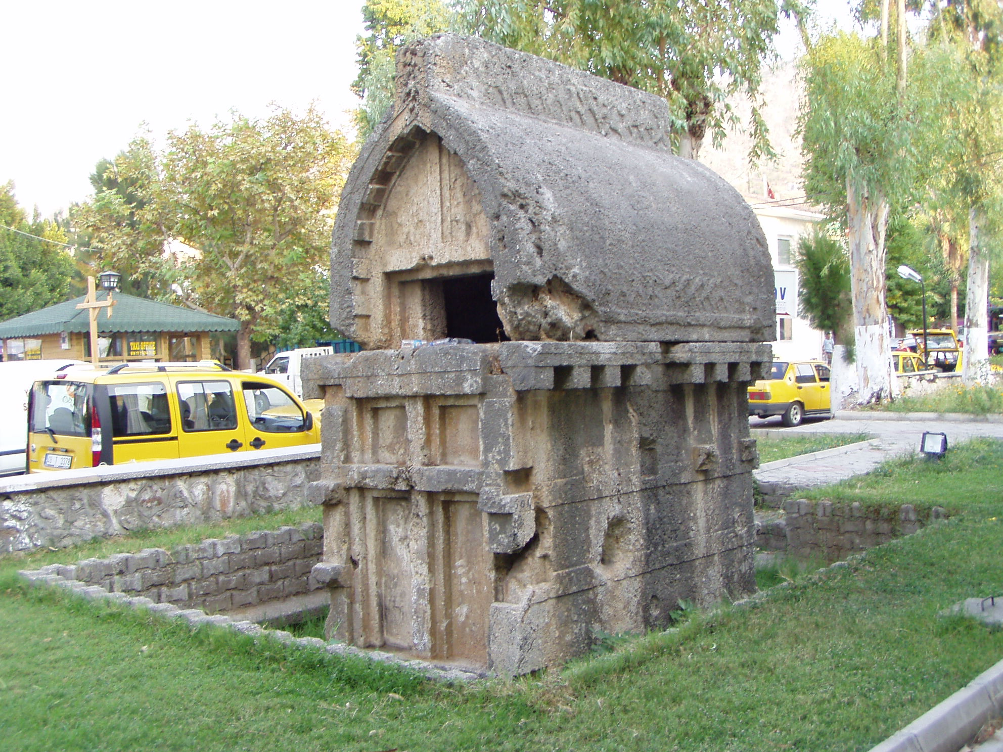 The same sarcophagus in 1883.Lycian Sarcophagus Fethiye - Mugla - Asia Minor, Turkey - πρώην Μάκρη, Μικρά Ασία, Τουρκία